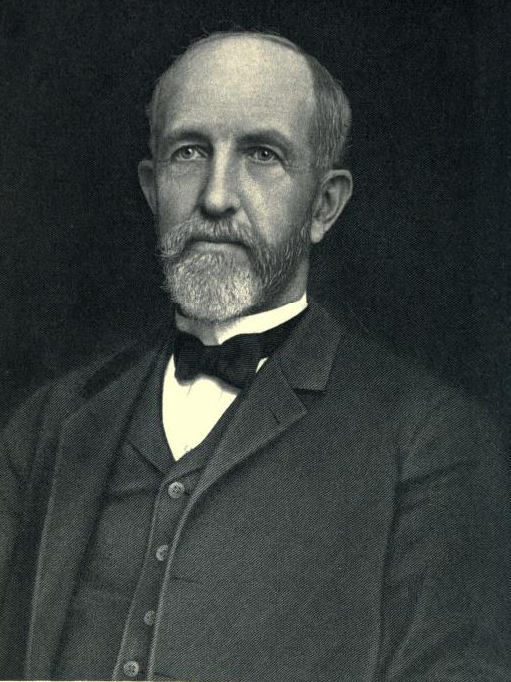 Portrait of T. B. Walker